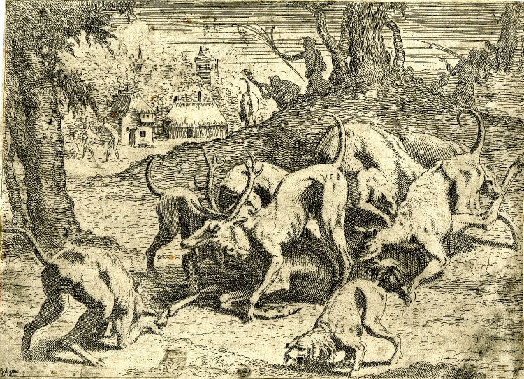 British Museum Pack of hunting dogs attacking a stag, perhaps Actaeon after his metamorphosis; in the background, people in classical costume and houses. c.1545 Etching, Print made by: Léon Davent After: Francesco Primaticcio , 1545 Zerner 1969 LD.38 Bartsch XVI.331.64